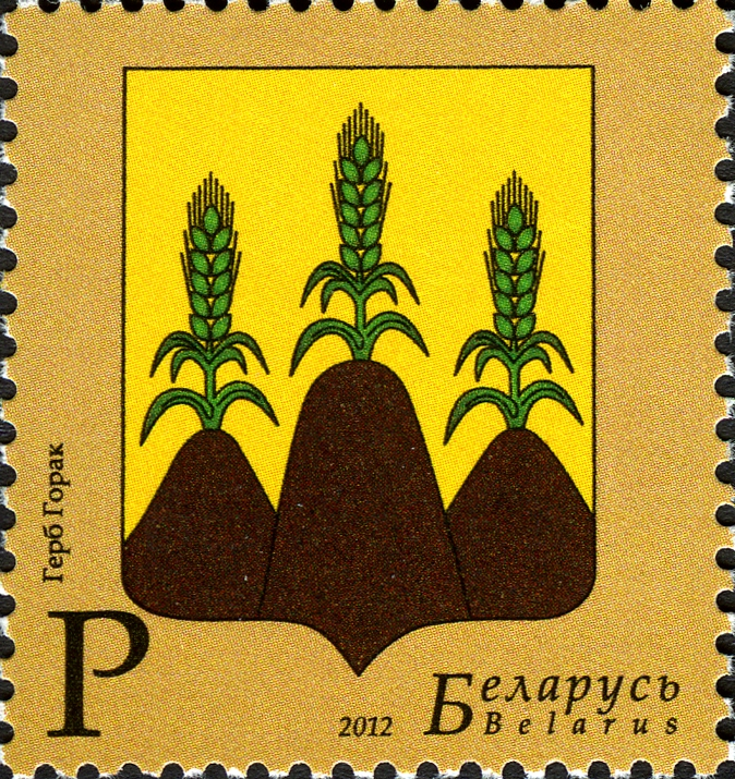 Stamp of Belarus